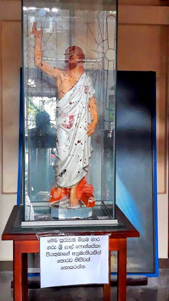 Statue of Risen Jesus after renovation of 2019 Sri Lanka Easter bombings at St. Sebastian's Church, Katuwapitiya.